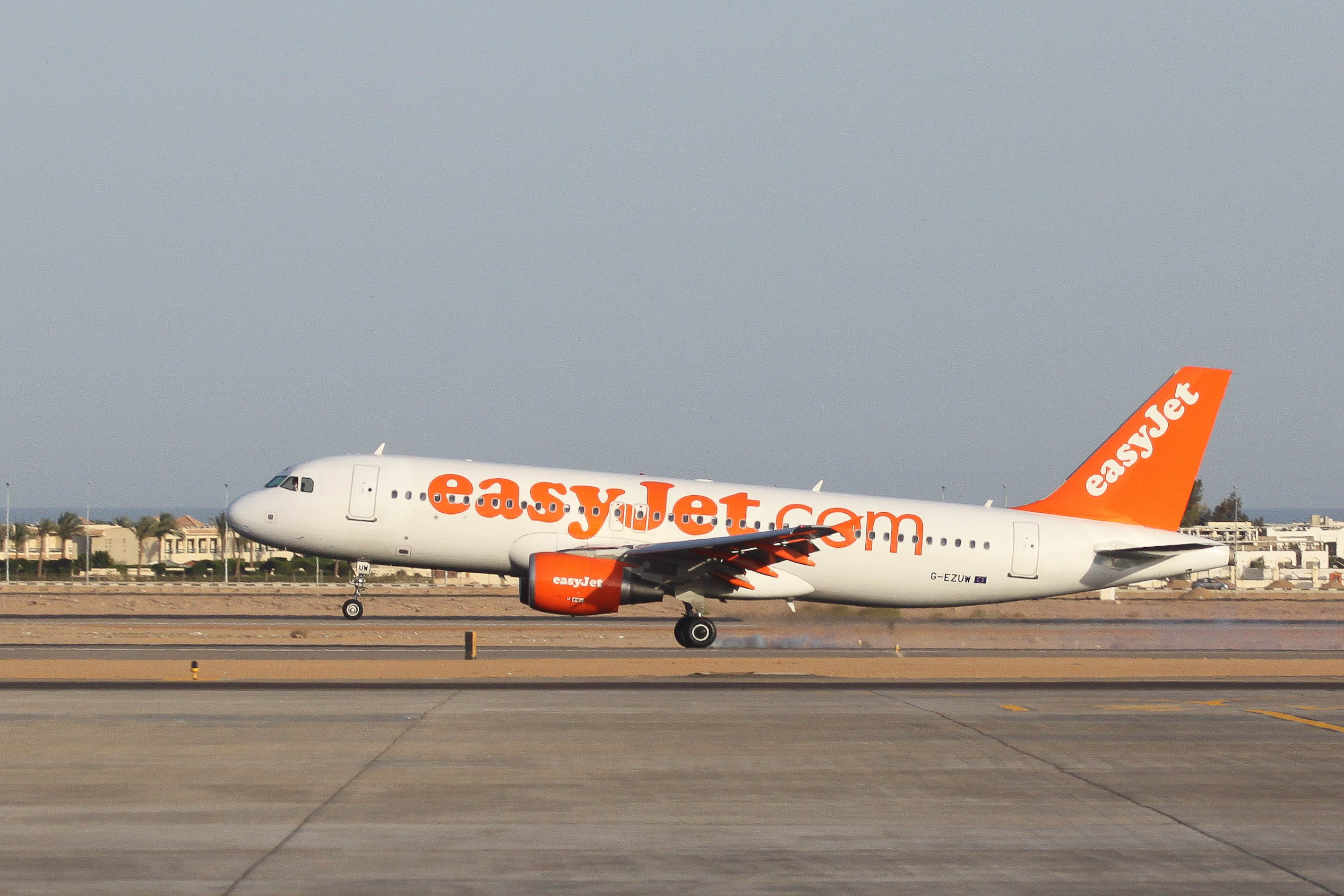 EasyJet A-320 landing at Sharm el-Sheikh International Airport